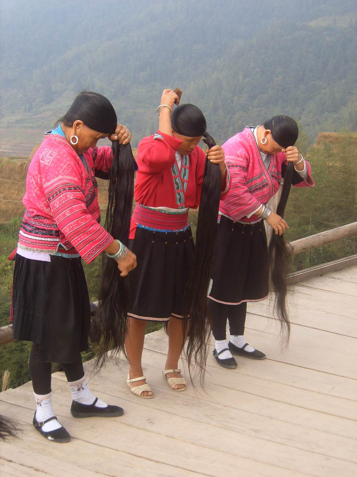 Yao (peuple) women in Ping'an showing their long hair that they never cut, except once where they are considered as grown up. They keep on their head their "current hair", but also those which were once cut, and those which fell out.